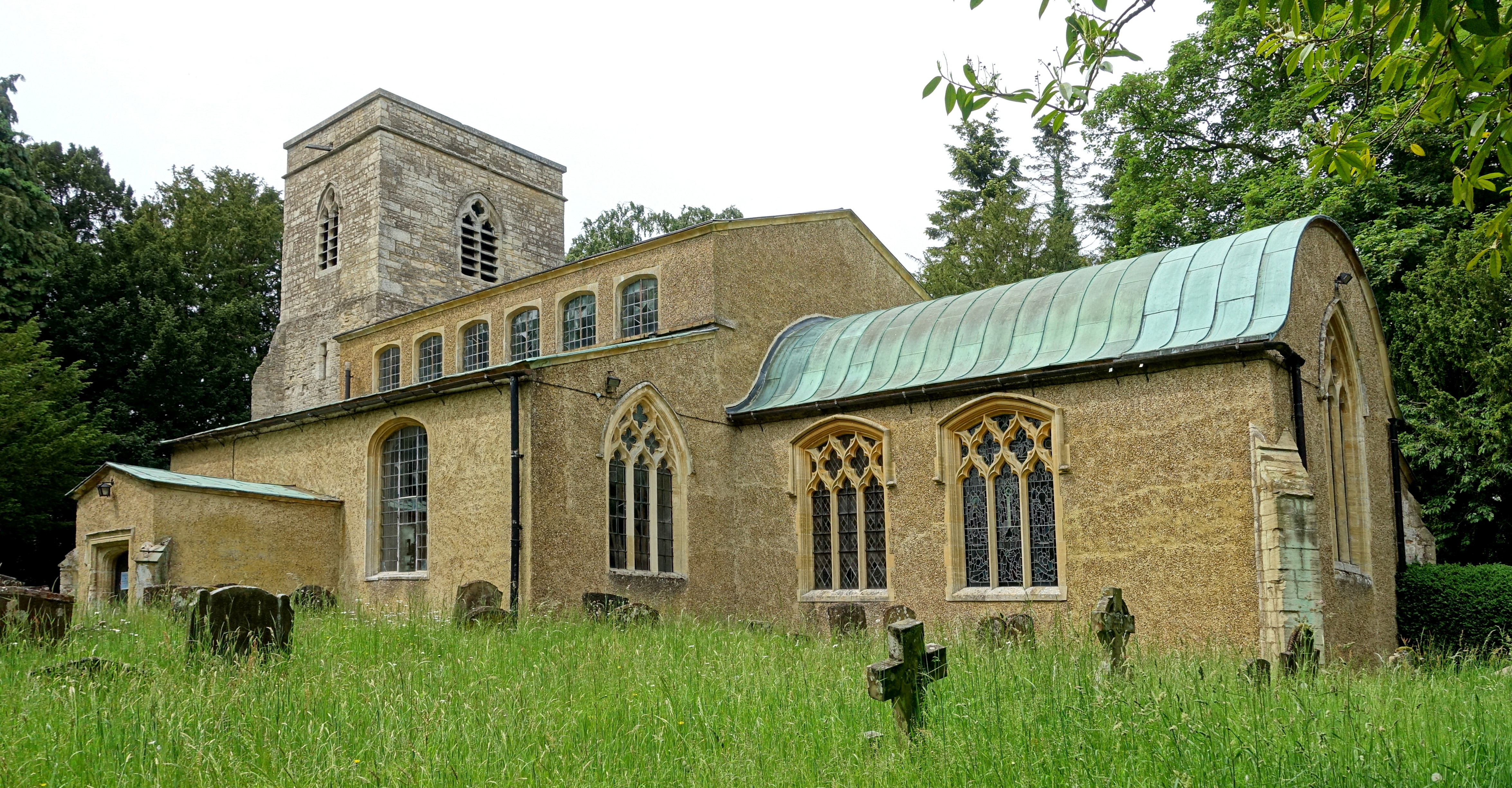 Saint Mary's Church, Stowe (Stowe Parish Church) - Buckinghamshire, England.